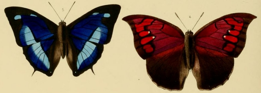 Butterflies of Polygrapha genus: Polygrapha cyanea (Salvin & Godman, 1868) - left Polygrapha tyrianthina (Salvin & Godman, 1868) - right